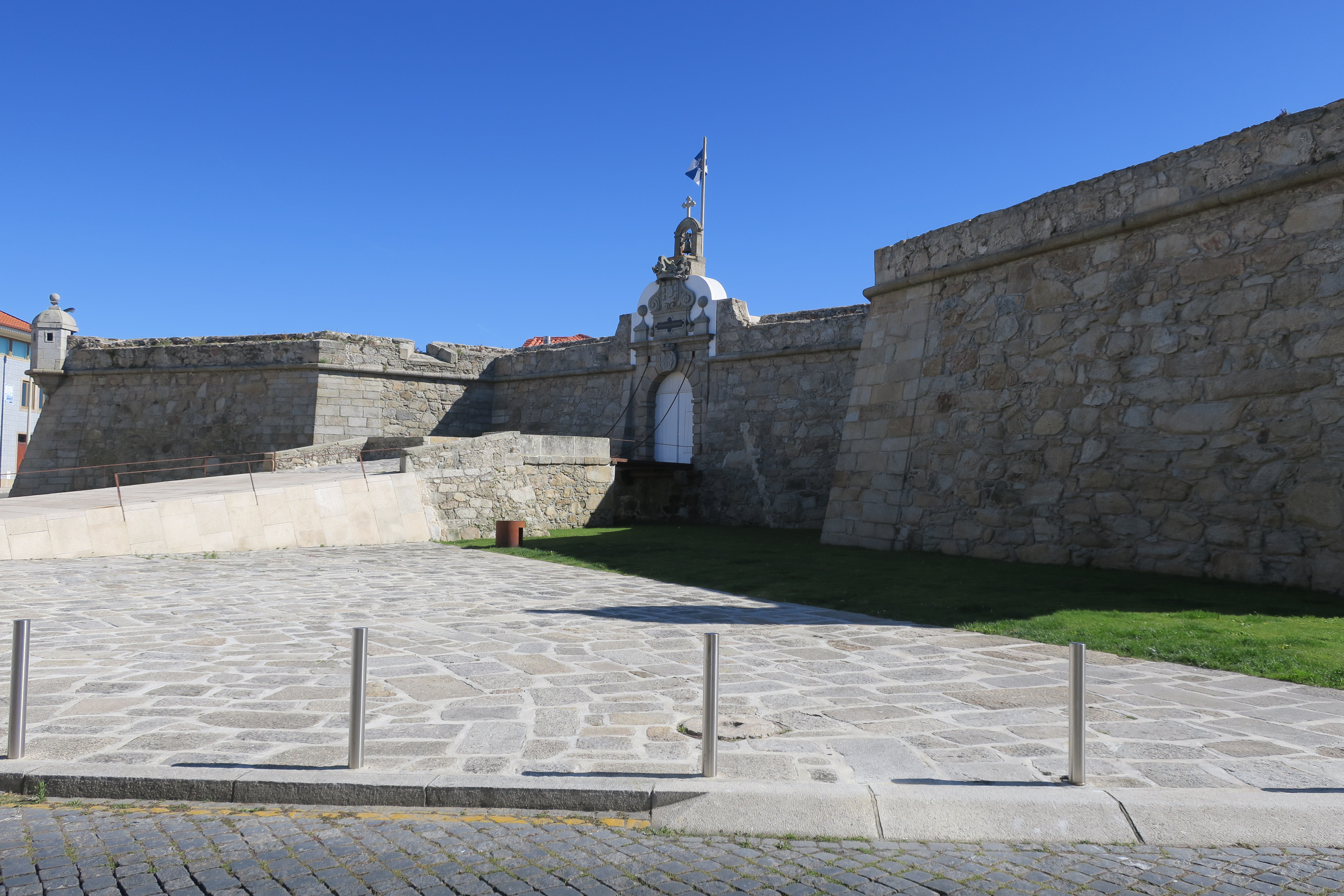 Fortress of Póvoa de Varzim